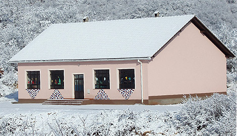 School in Izbično,Bosnia and Herzegovina